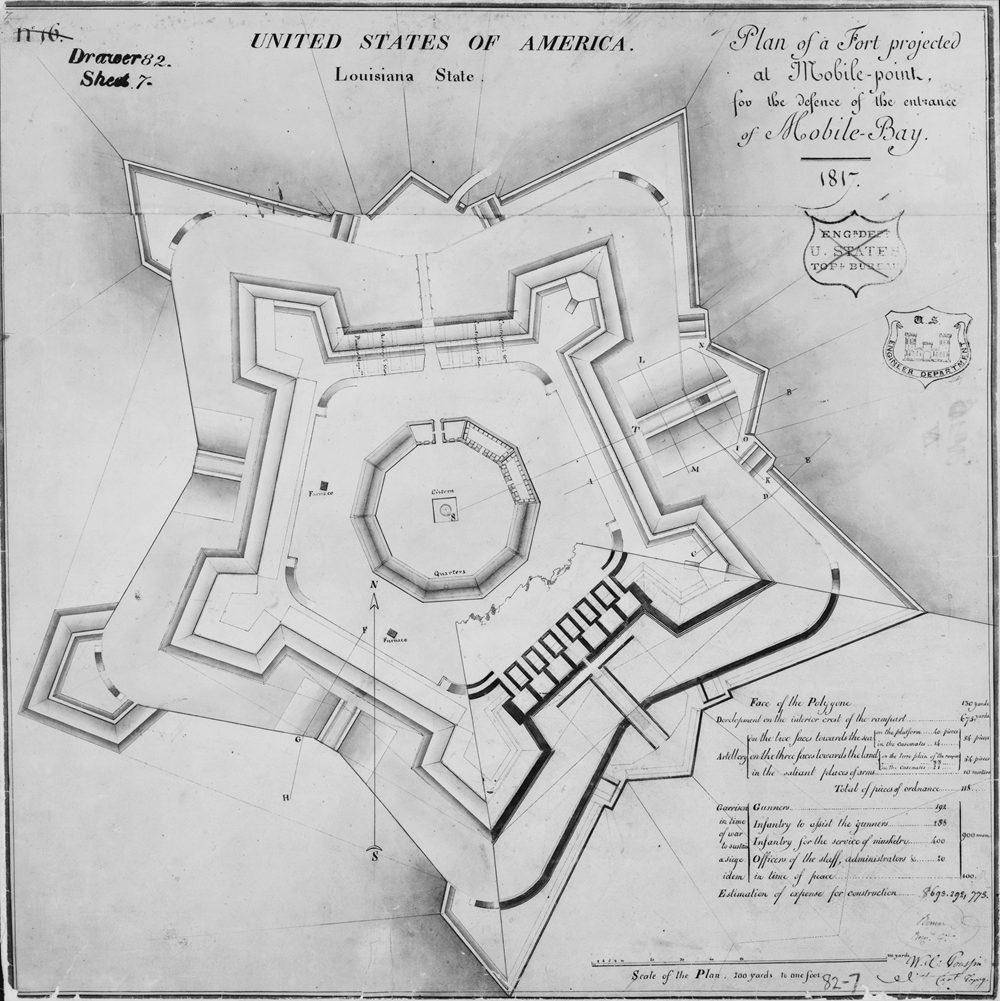 Fort Morgan, Gulf Shores vicinity, Baldwin County, AL. PLAN OF FORT MORGAN, dated 1817. (Photographic copy of map